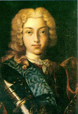 Peter II of Russia